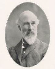 Willam F Barrett